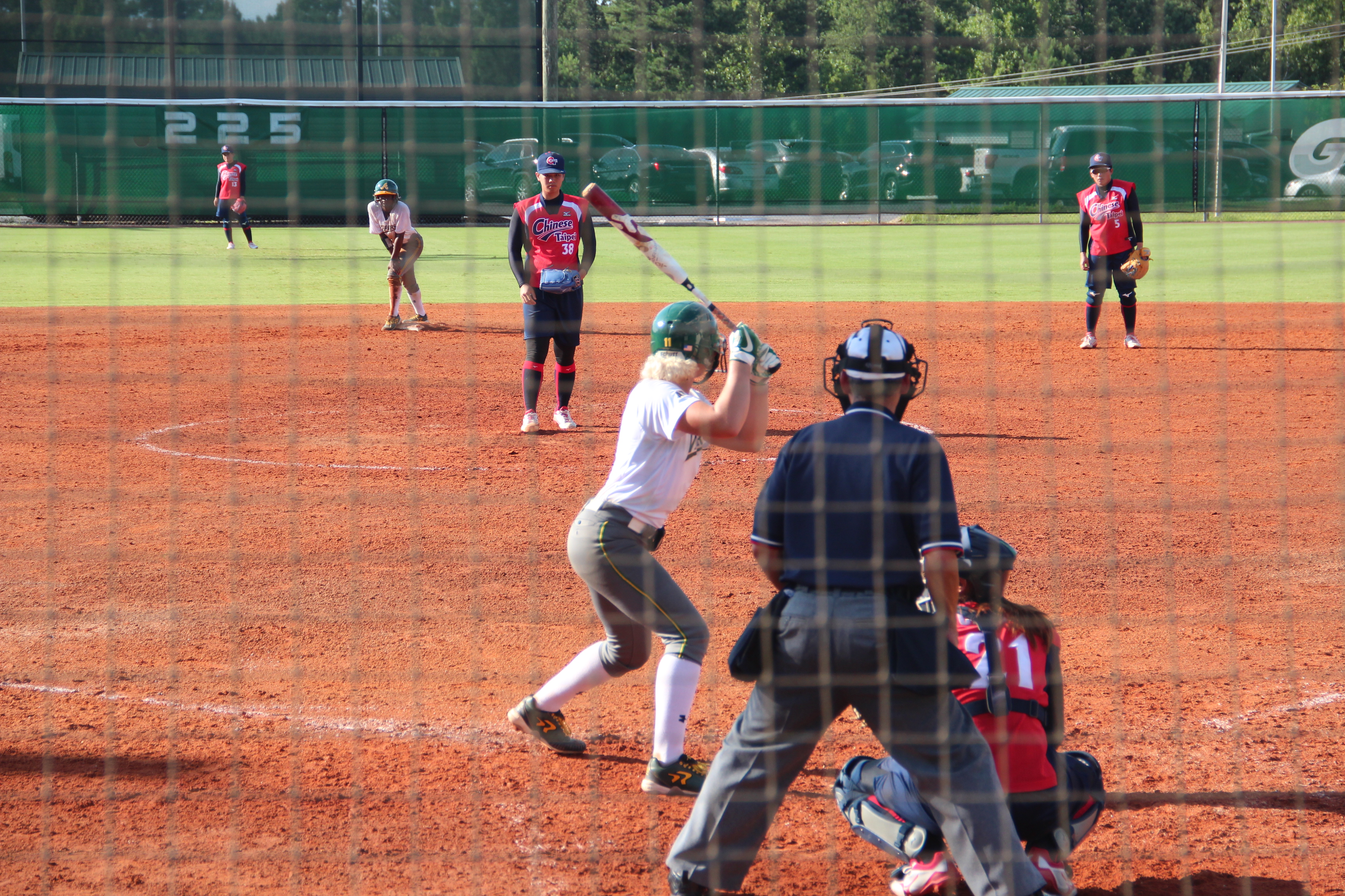 Chinese Taipei national softball team vs. Atlanta Vipers